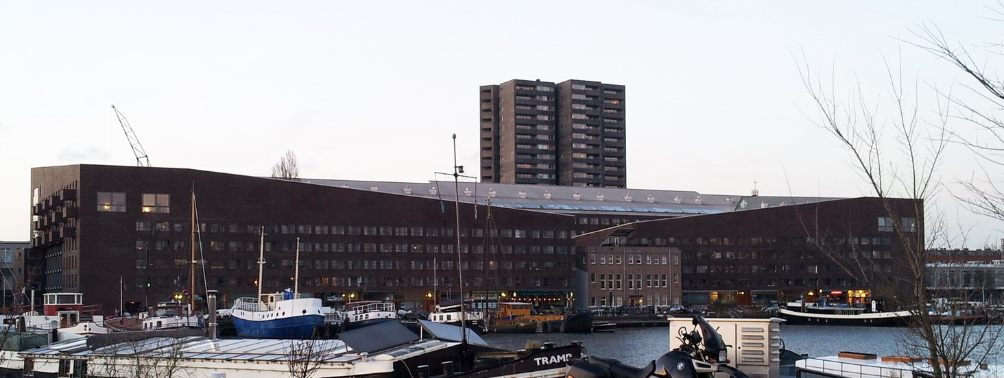 Amsterdam, the Netherlands. View of residential building 'Piraeus' designed by German architect Hans Kollhoff on KNSM Island in the Eastern Docklands of Amsterdam